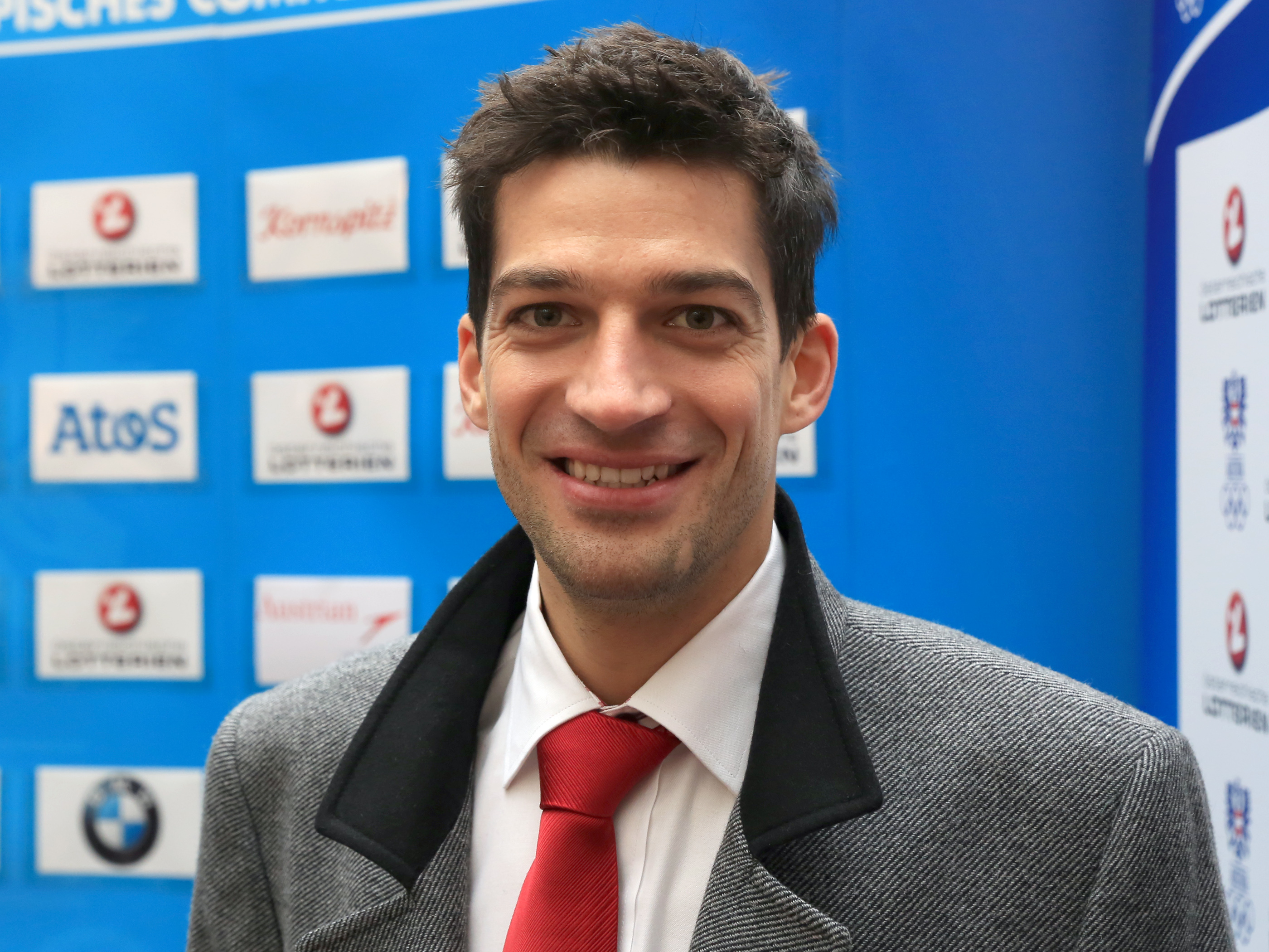 Andreas Kofler (ski jumping) at the outfitting of the Austrian team for the 2014 Winter Olympics (Hotel Marriott in Vienna, Austria.